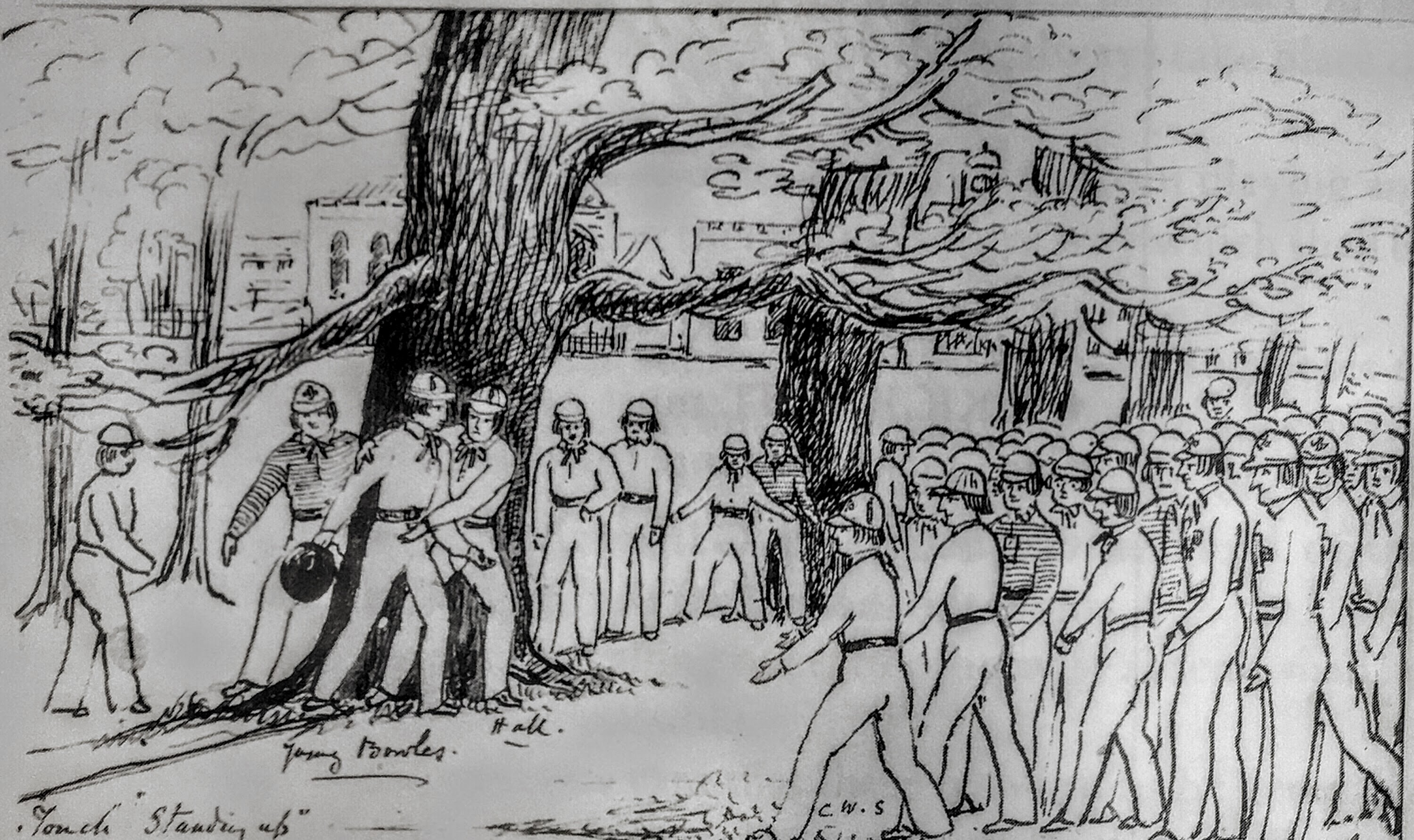 Illustration of "Touch Standing Up" at Rugby school.